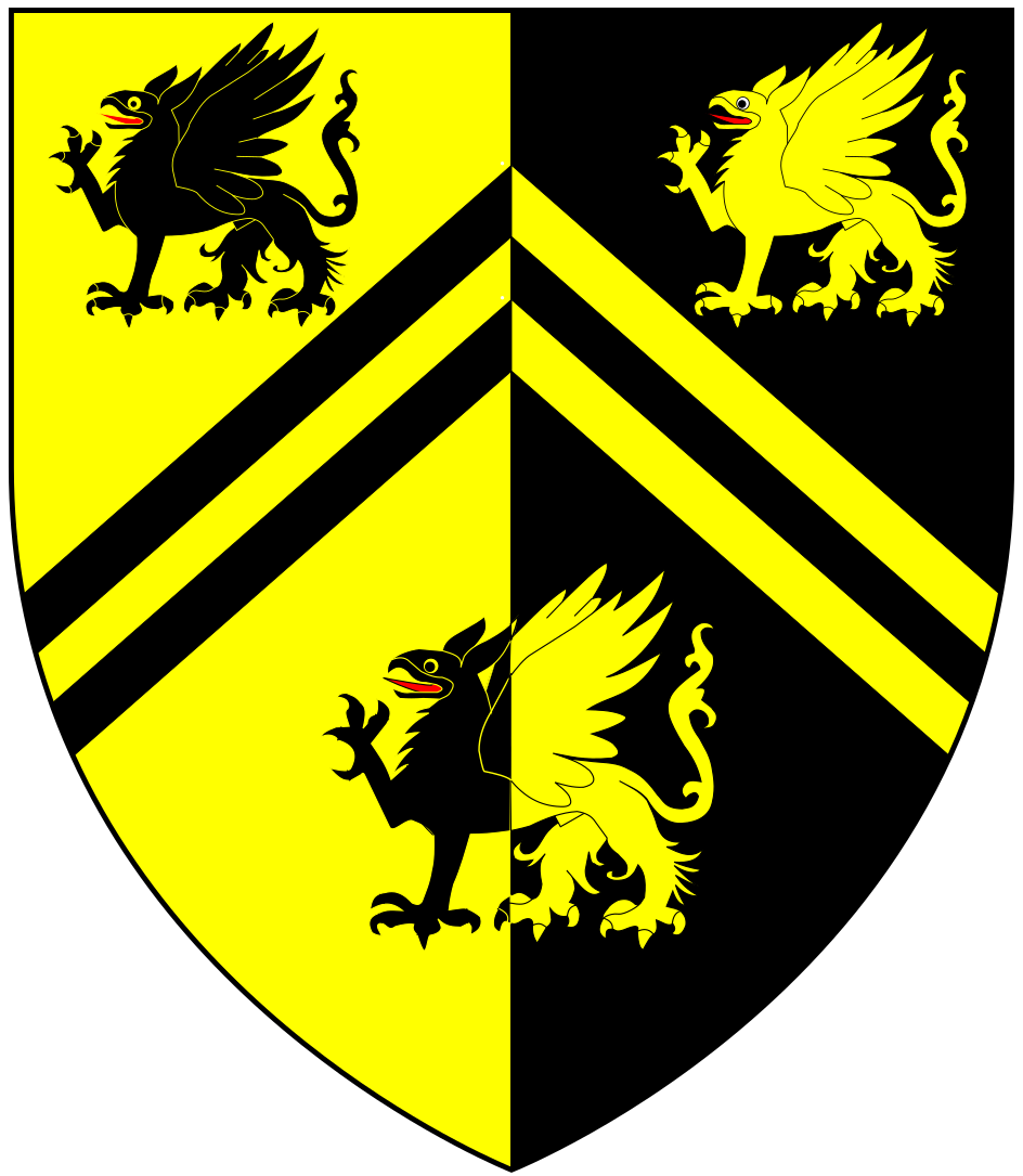 Arms of Eveleigh of Holcombe in the parish of Ottery St Mary, Devon: Per pale or and sable, two chevronels between three griffins passant counterchanged (Source: Vivian, Lt.Col. J.L., (Ed.) The Visitations of the County of Devon: Comprising the Heralds' Visitations of 1531, 1564 & 1620, Exeter, 1895, p.336)